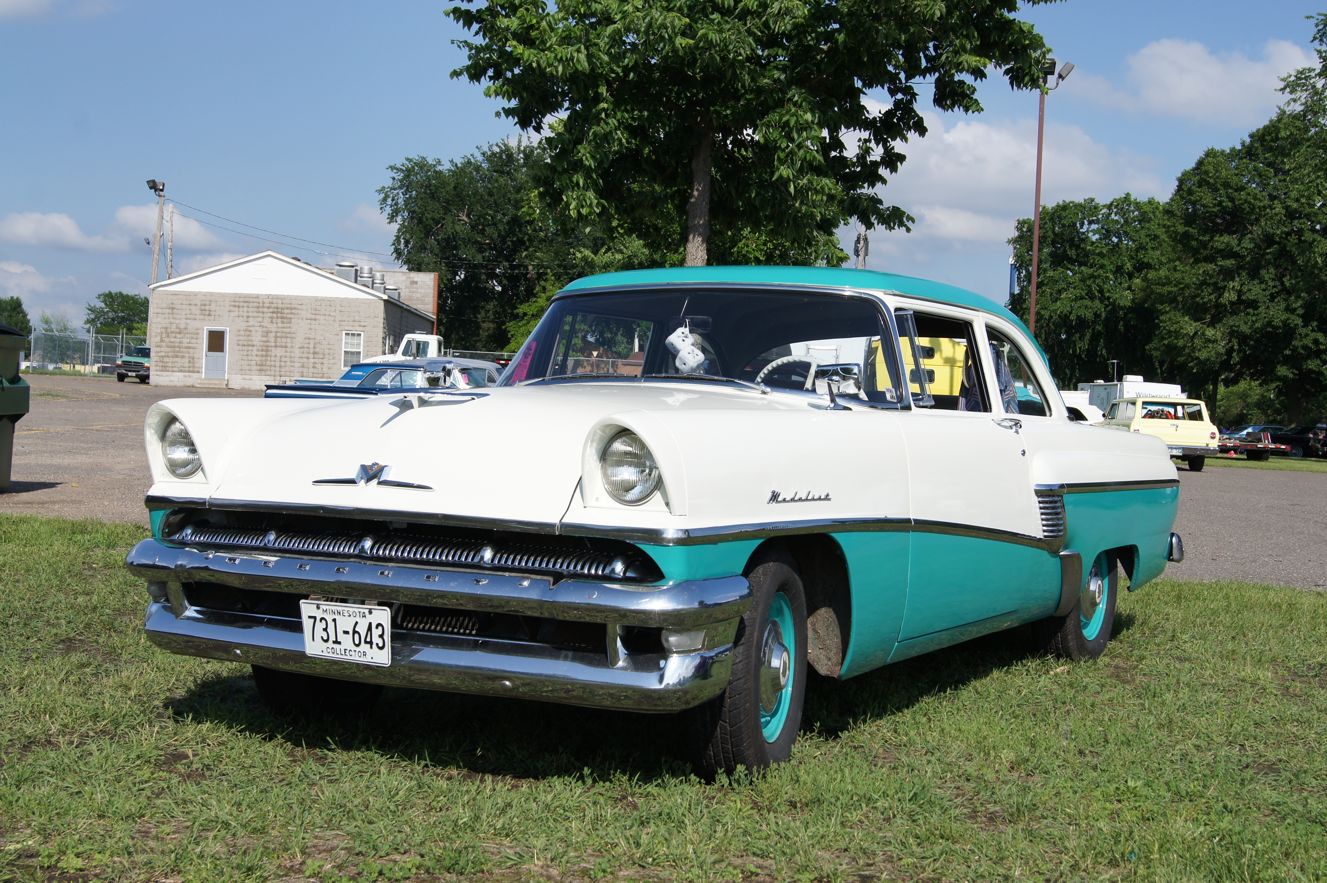 MSRA “BACK TO THE 50′s” 40th ANNIVERSARY June 21-23, 2013 State Fairgrounds St. Paul Minnesota More Car Pictures